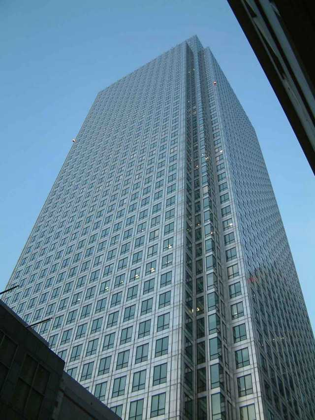 One Canada Square - Canary Wharf - oblique angle, evening - London - England - 240404. Photo taken by Tagishsimon on en:24 April en:2004 Category:César Pelli buildings